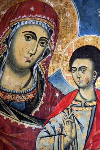 Saint Mary Church in Bistrica, Vele Region, Icon of Mary with Christ 1853